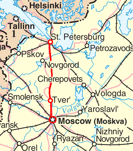 Moscow–Saint Petersburg Railway